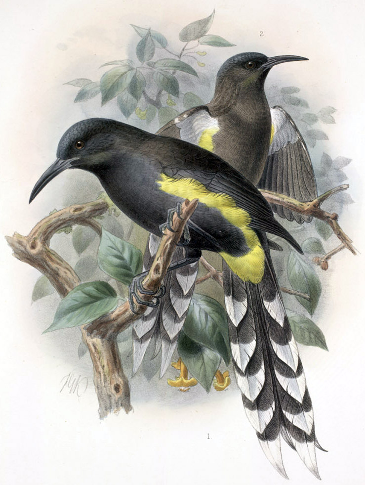 Male and female Moho apicalis - Ohahu 'O'o